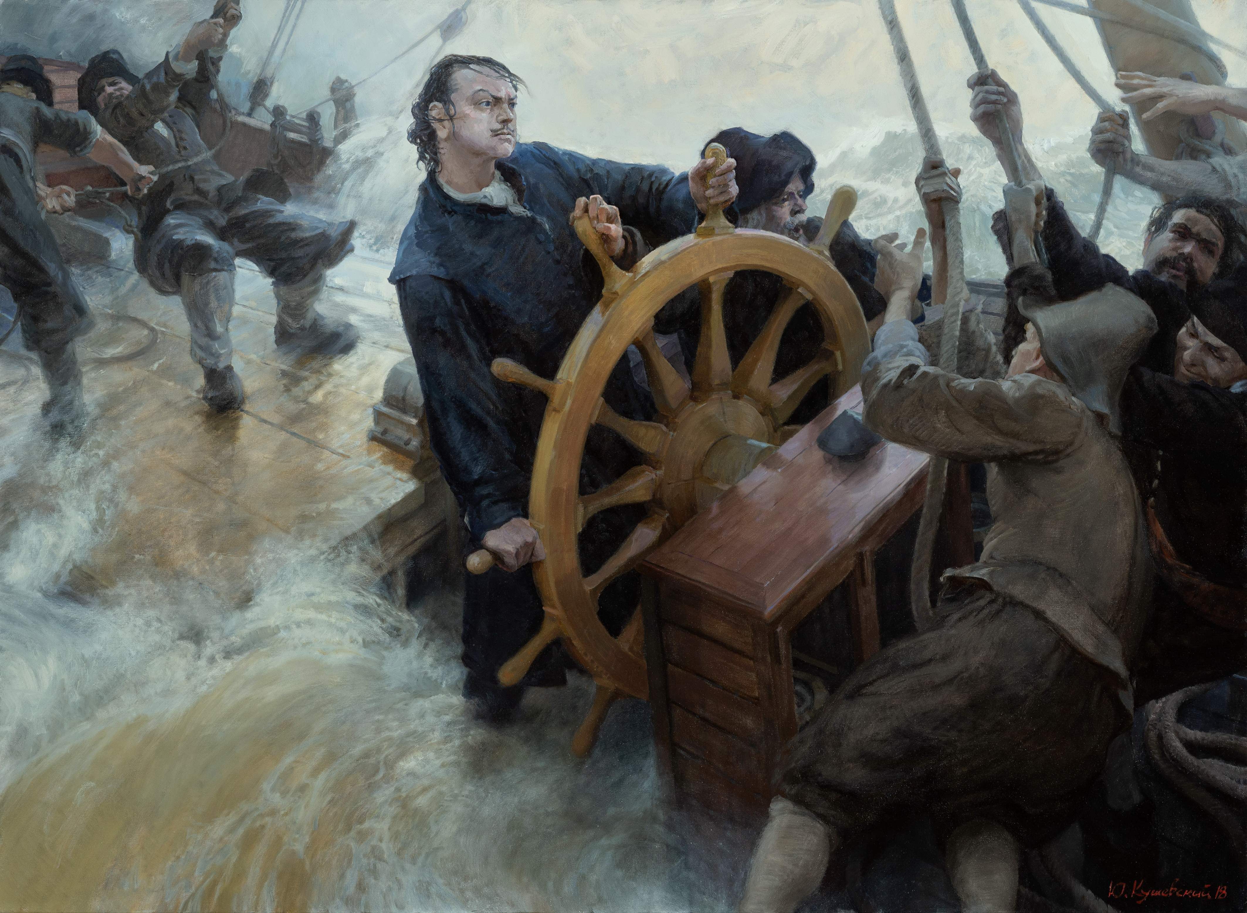 " The great steering" Peter the Great on frigate "Shtandart"